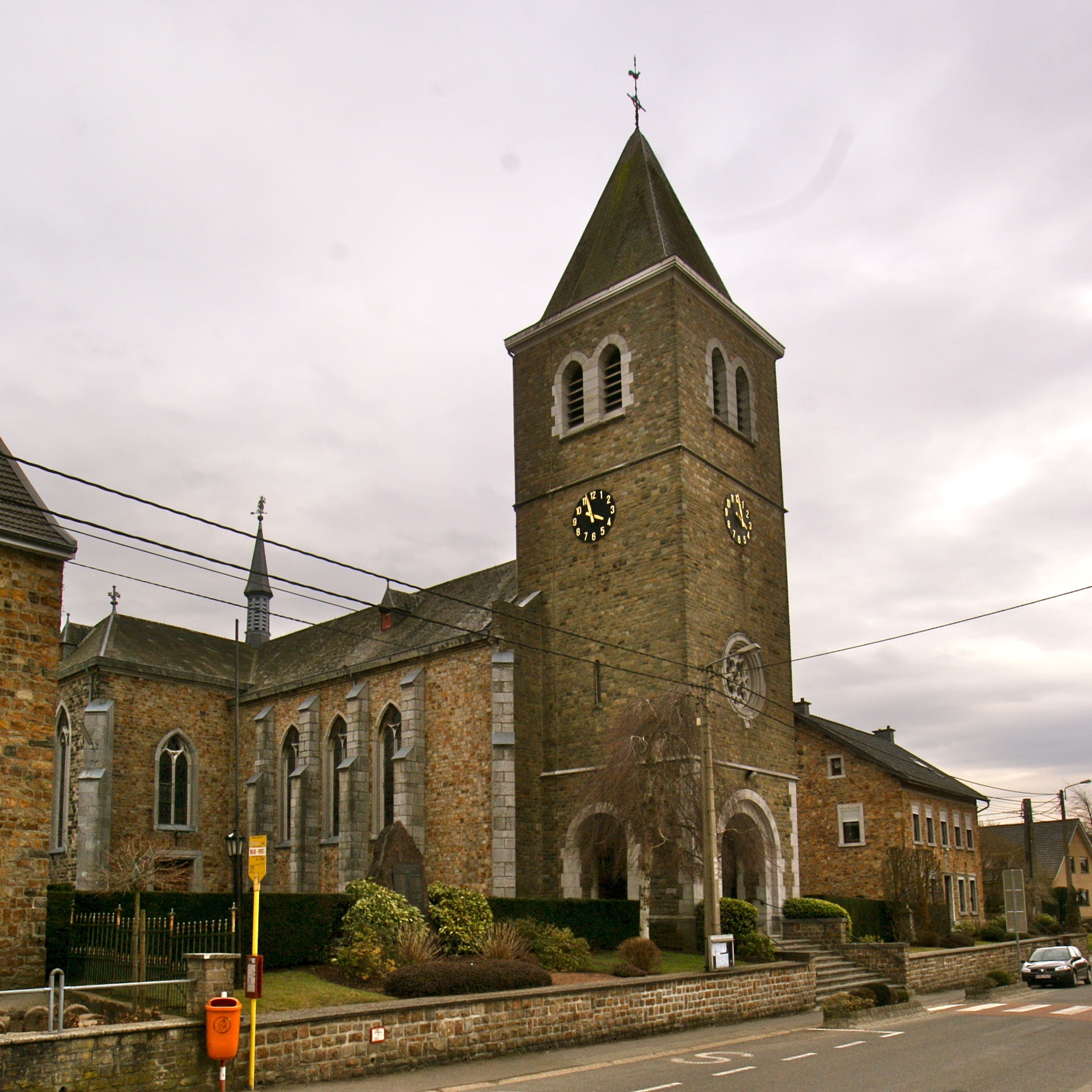 Hauset (Belgium): St.Roch church